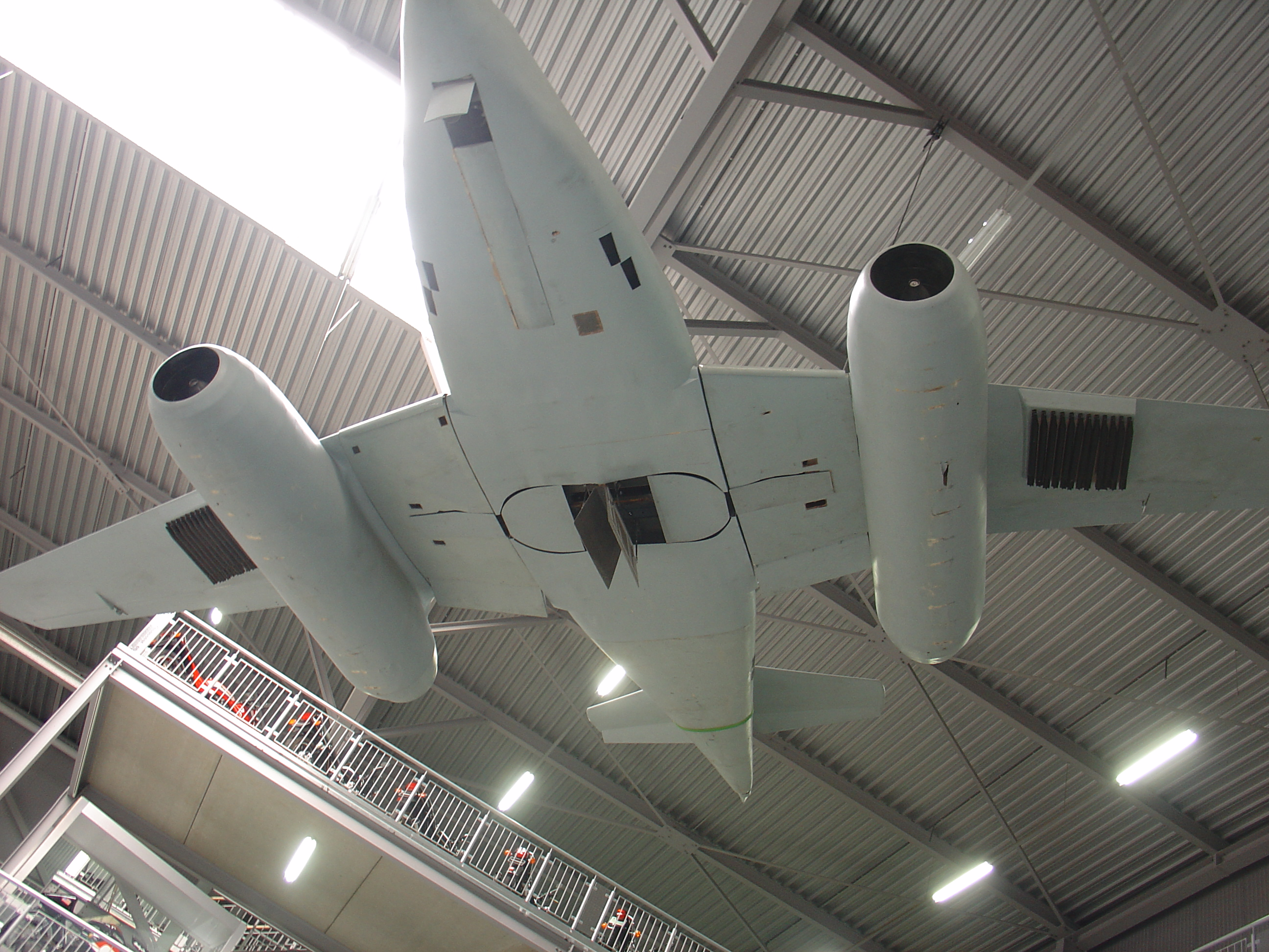 Me 262 showing R4M installation; Technikmuseum Speyer, Germany